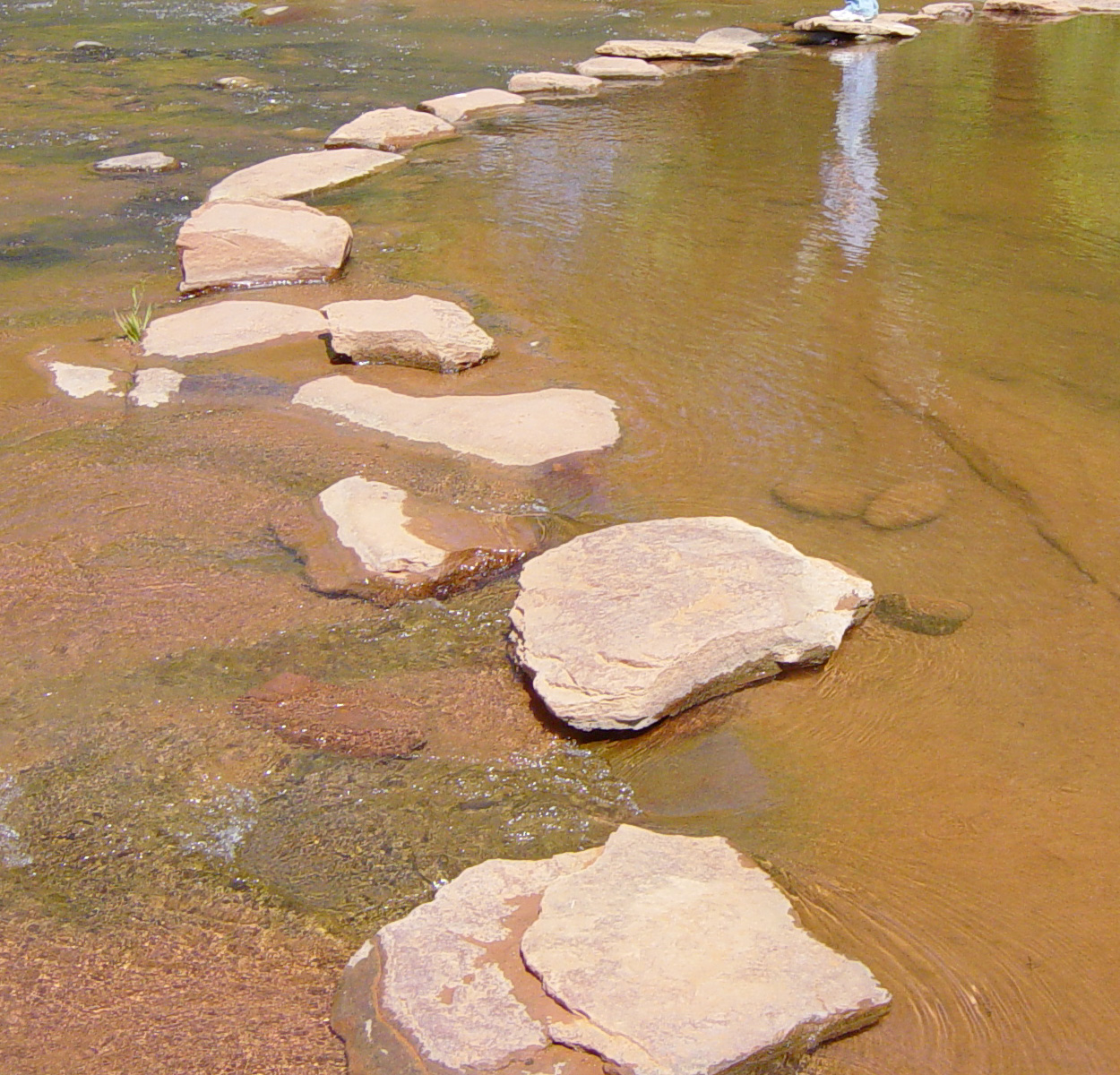 Step-stone bridge for hikers, at Red Rock Creek near Sedona, Arizona. Image by User:Leonard G.